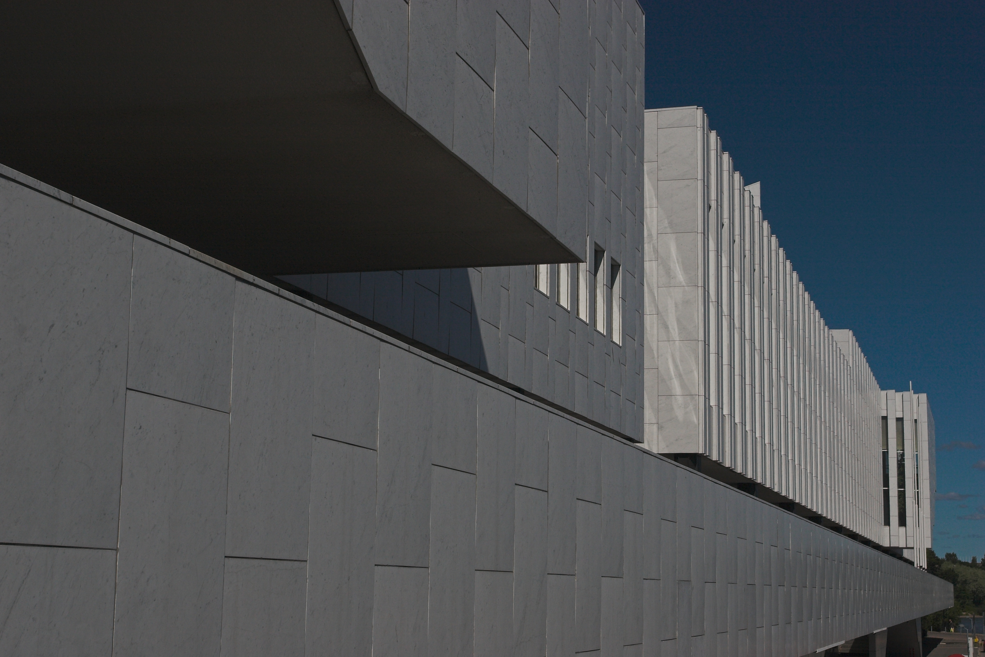 The wall of Finlandia Hall in Helsinki, Finland. The curving marble surface has raised a lot of discussion of whether the surface choice is appropriate to northren climate.